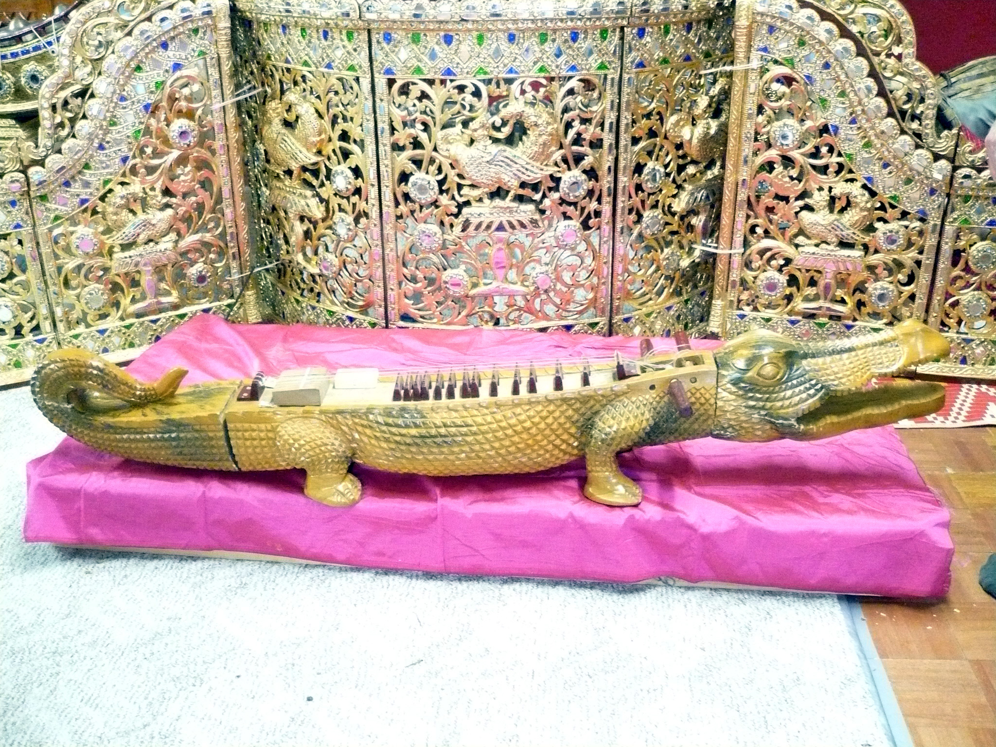 A kyam (a plucked fretted zither with three strings used by the Mon people). Photo taken on Sunday, May 31, 2009 at the Mon Buddhist Temple in Fort Wayne, United States.